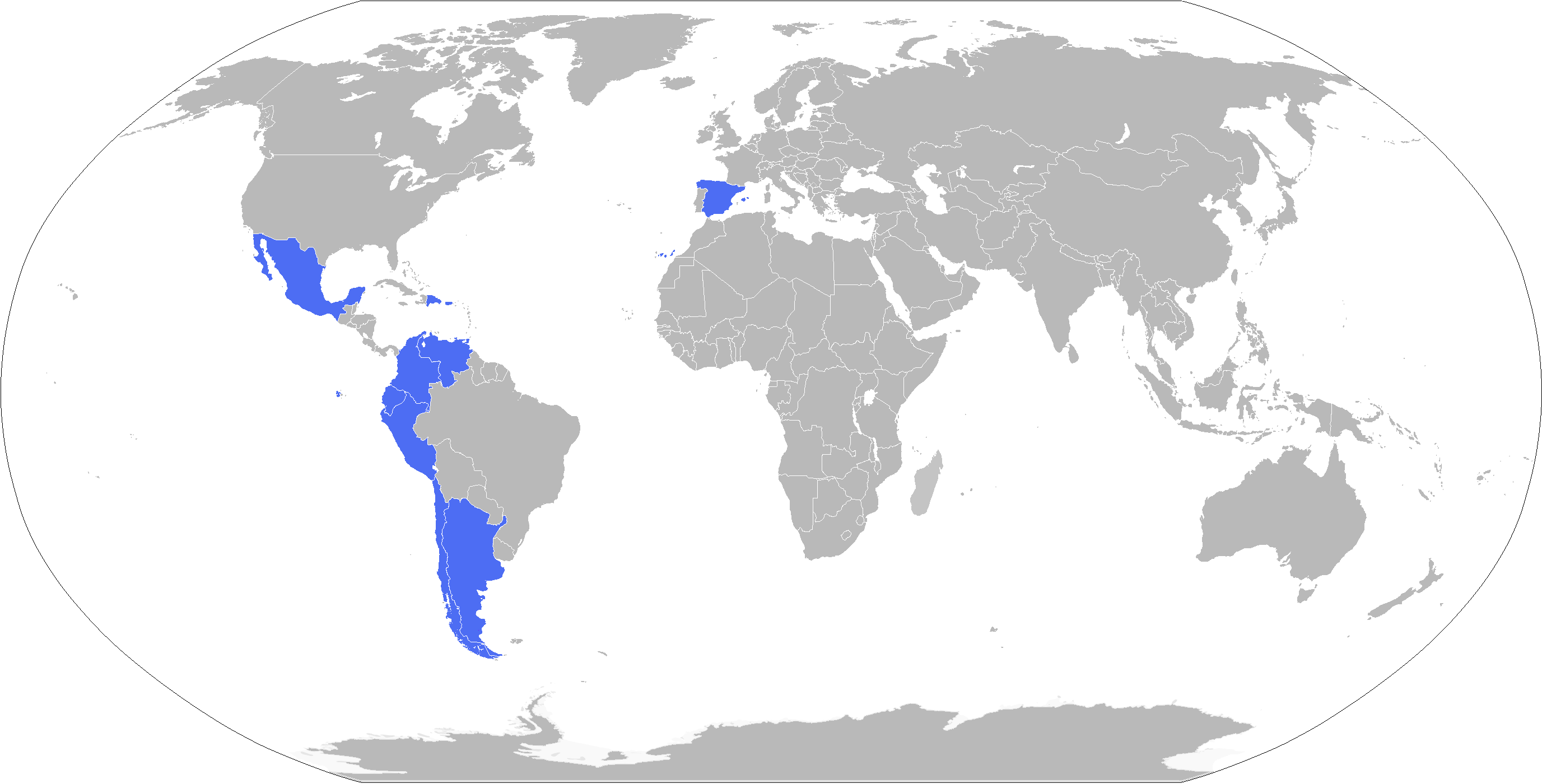 Map of the 10 hispanics countries with more users in Facebook.